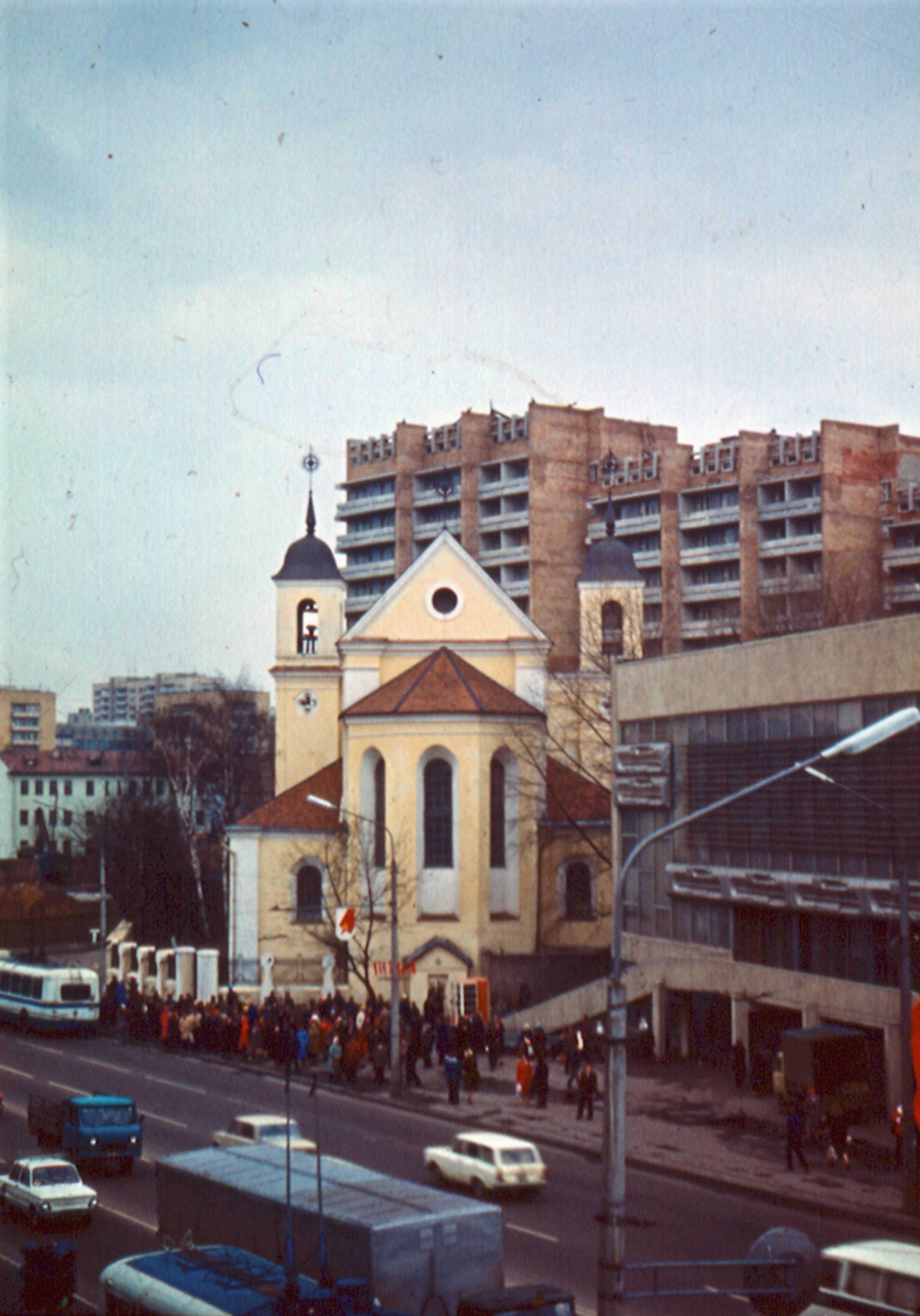 Niamiha street in Minsk, Belorussian SSR, 1981.